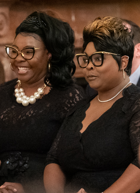 Counselor to the President Kellyanne Conway speaks with social media personalities and live-stream video bloggers Diamond and Silk (Lynette Hardaway and Rochelle Richardson) Thursday, July 11, 2019, during the Presidential Social Media Summit in the East Room of the White House. (Official White House Photo by Andrea Hanks)